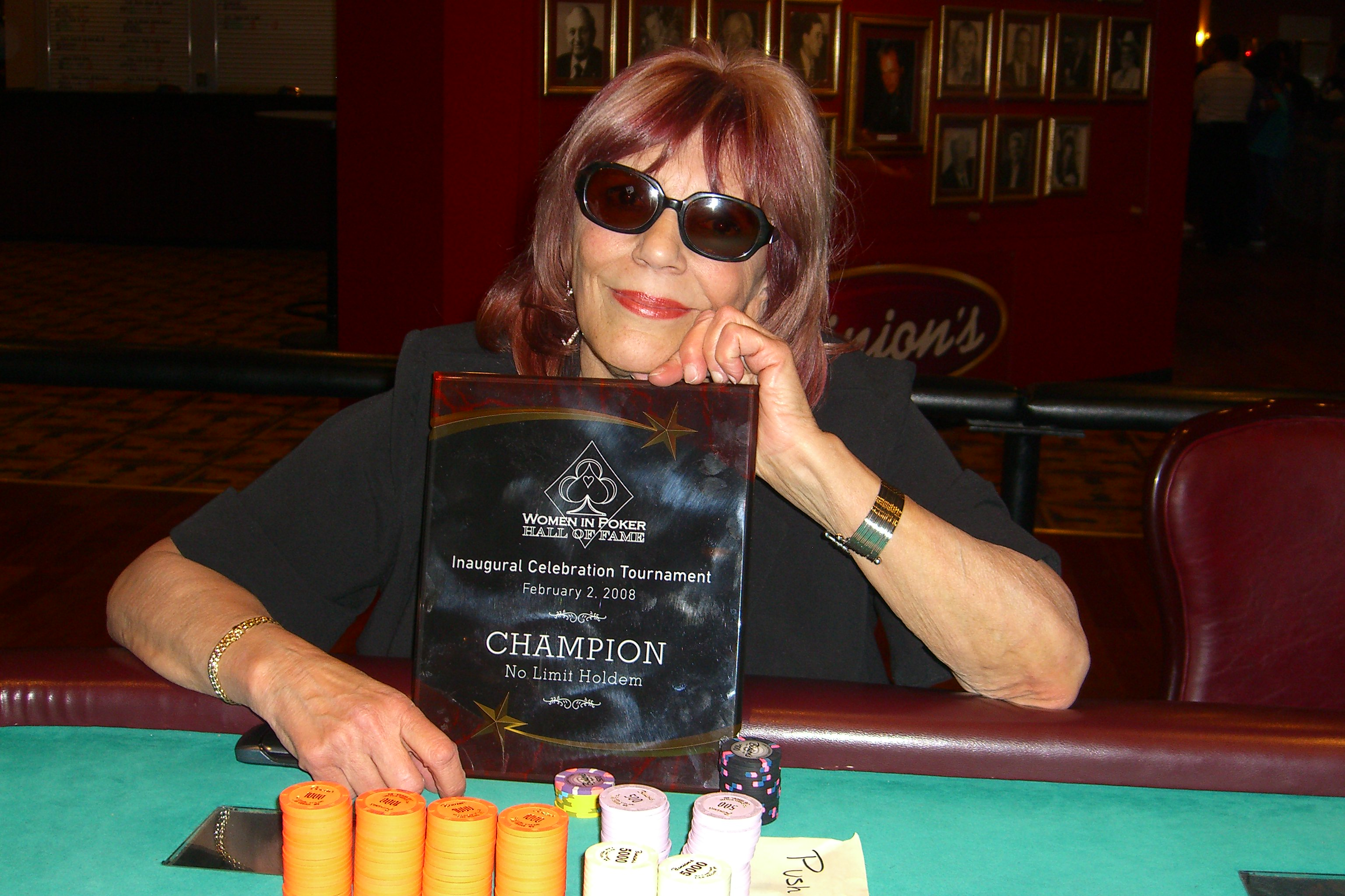 Barbara Enright, poker player, taken Feb. 2, 2008 at Binion's Horseshoe in Las Vegas when Barbara was one of the four inaugural women inducted into the Women in Poker Hall of Fame, and later won the open-event poker tournament.